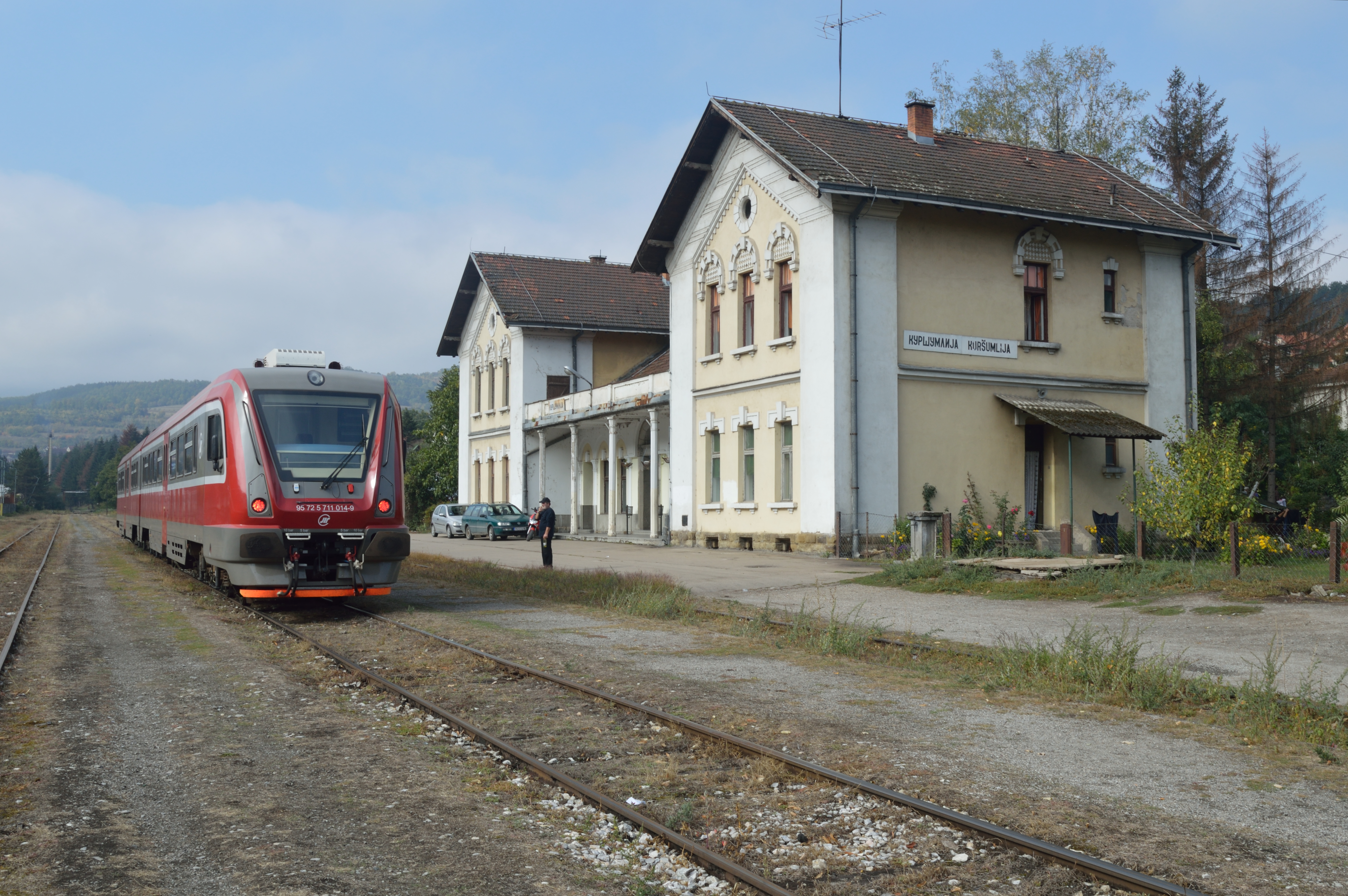 Balkans Rail Trip, Autumn 2013 - Day Six Some of the new 2-car Russian built sets have been allocated to Niš depot to work services to Prokuplje and beyond. Services on the line were curtailed during the late 1990s following the outbreak of war over Kosovo - originally the route connecting Niš with Pristina. However once per day a service operates most of the way through to Merdare close to the Kosovan border. On 28 September 2013 set 711.013 (with 711.014 closest to the camera) pauses at Kuršumlija one of the largest towns on the line whilst working train 7821, 07:24 Niš to Merdare. The train will reverse here.